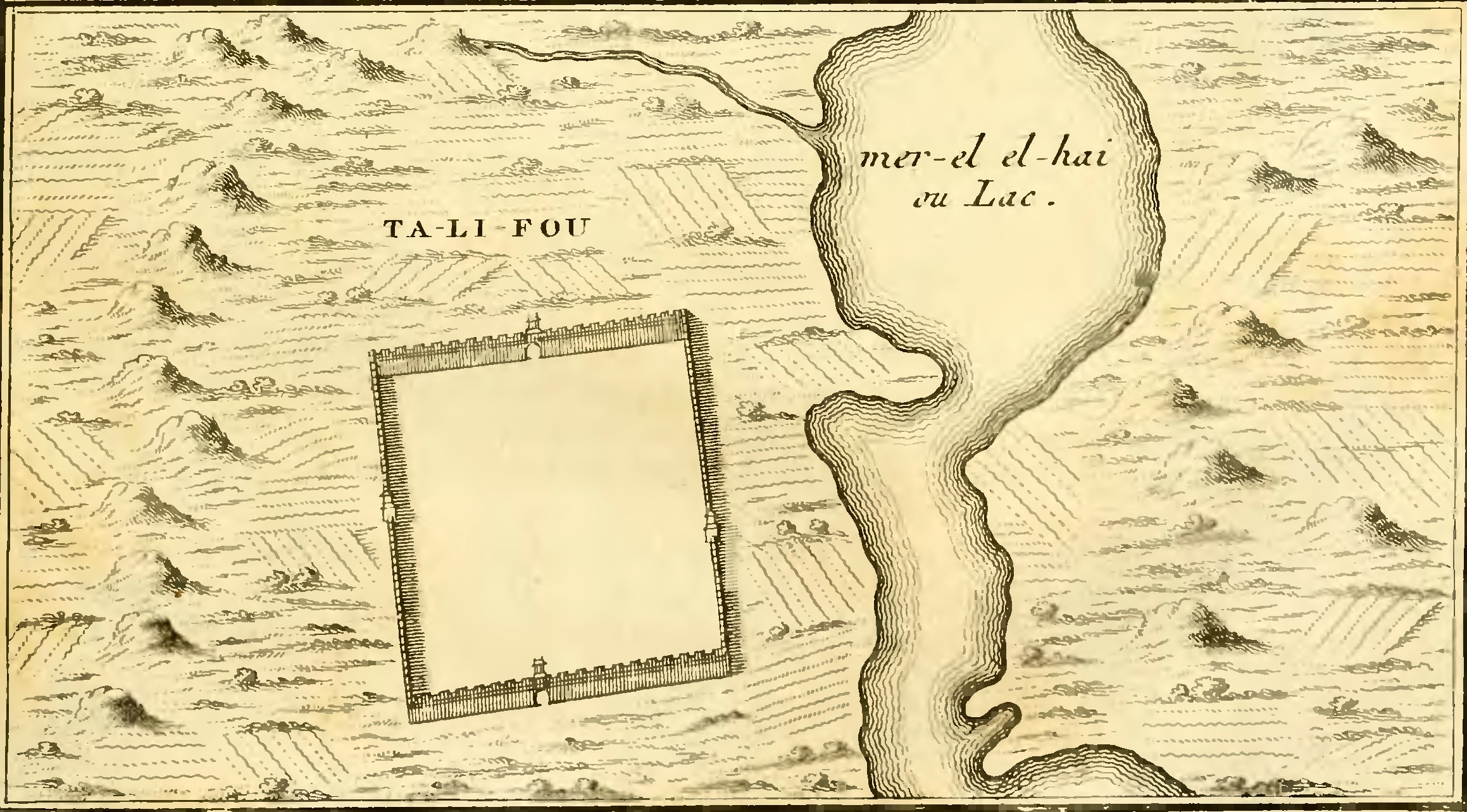 Inset map of Dali (大理府, "Ta-li-fou") from Du Halde's Description of China, Vol. I, p. 248.